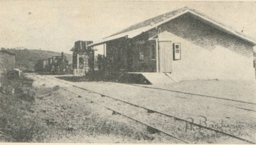 Station Barueri in 1880, extracted from the book commemorating the 90th anniversary of the Railway Company Sorocabana.